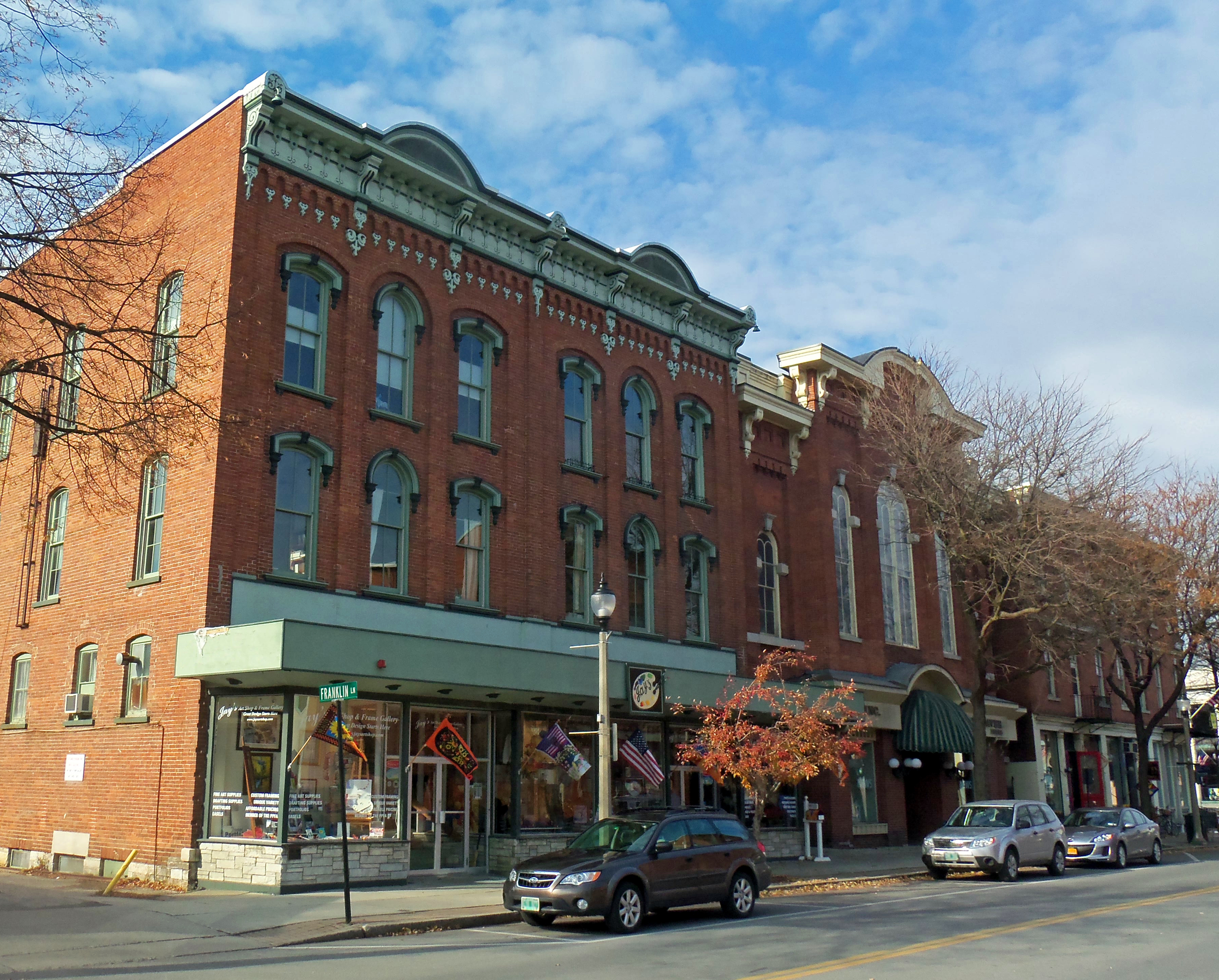 Buildings on South Main Street (US 7) in the Downtown Bennington, VT, Historic District.